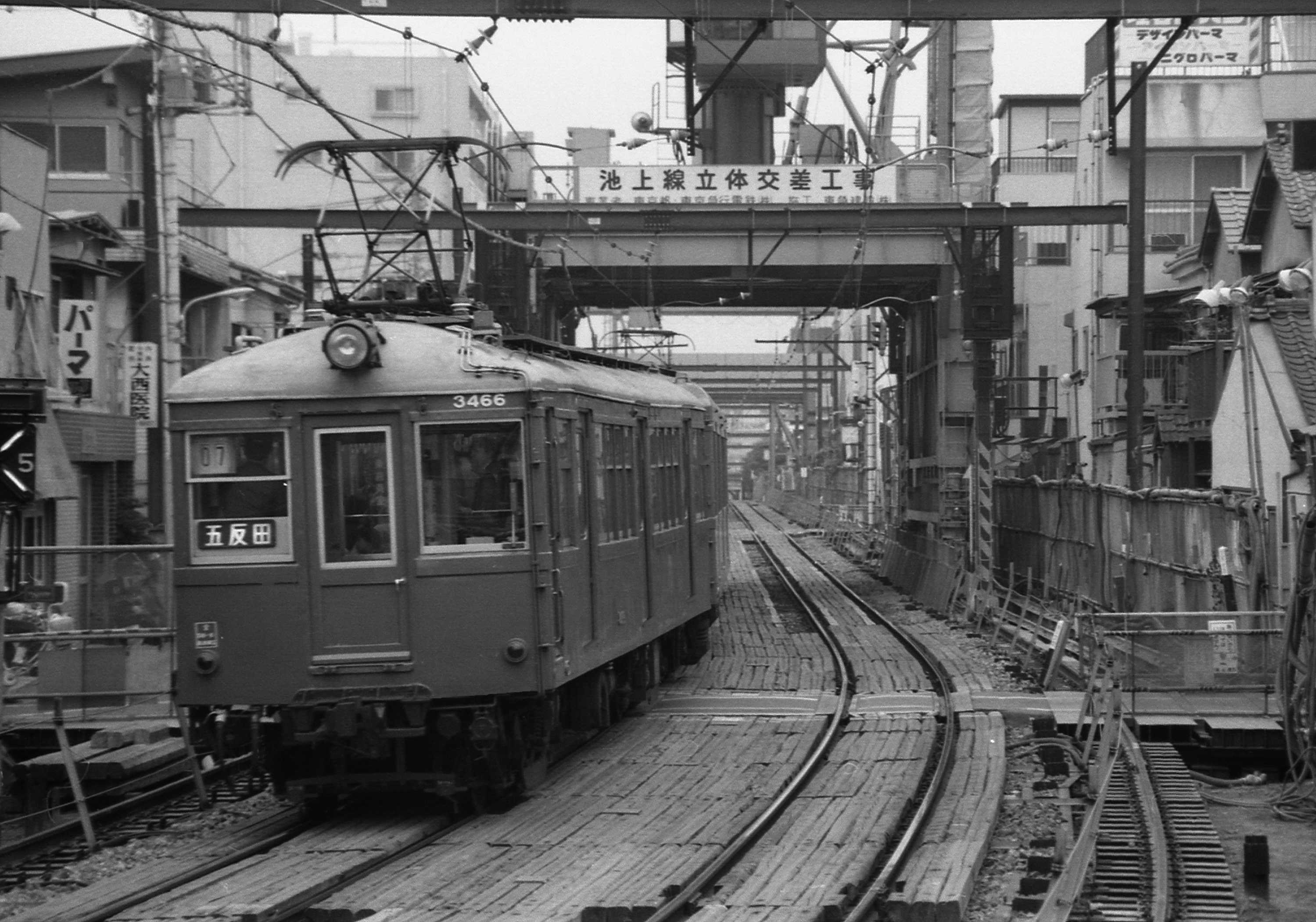 Tokyu 3450 leaving Ebara Nakanobu staion. This area was under the process to move the track underground.